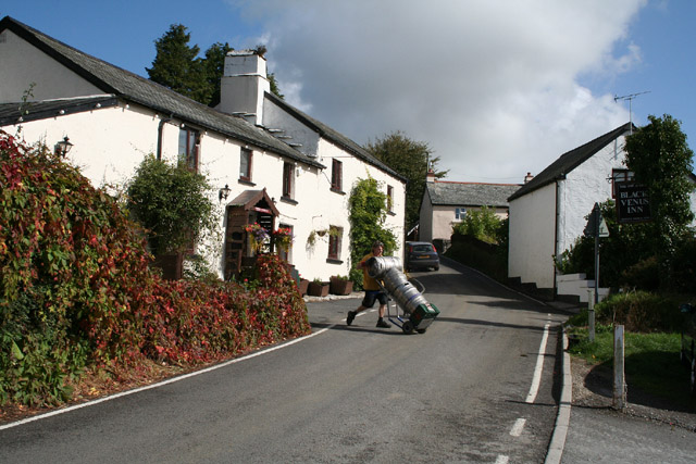 Challacombe: Simonsbath road at the Black Venus. The Black Venus Inn is on the B3358 which links Simonsbath with Blackmoor Gate. The pub was earlier named the Ring of Bells, although it is nowhere near Challacombe church. Here the drayman from St Austell Brewery takes empty kegs back to his lorry. The Black Venus was called that originally because of a sheep in the area that had black wool and was specific to Challacombe. It was named The ring O Bells in the 1950's when new church bells were hung but John Green (The Landlord) changed it to Black Venus in 1965 after he took over the pub.